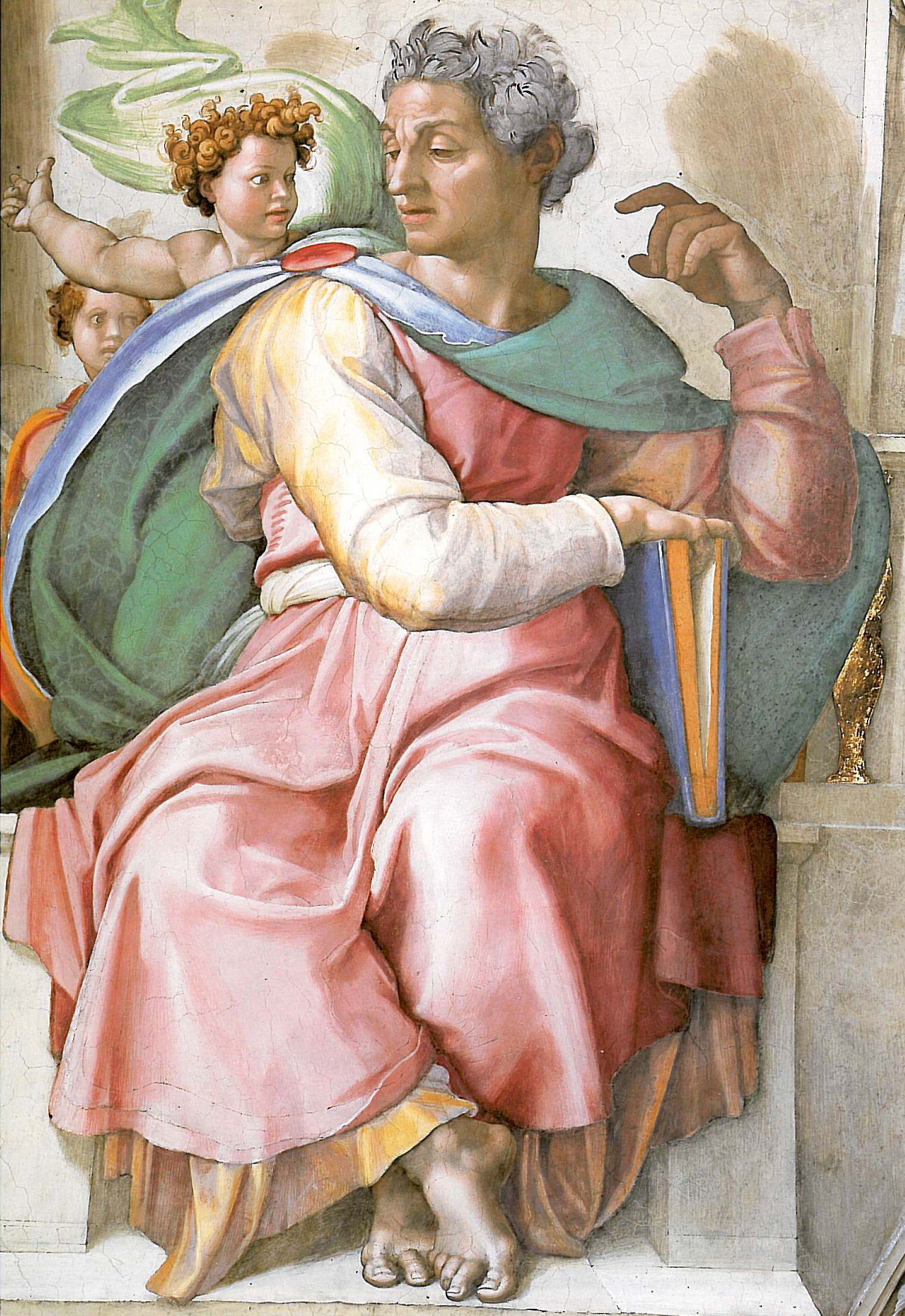 fresco painted by Michelangelo and his assistants for the Sistine Chapel in the Vatican between 1508 to 1512